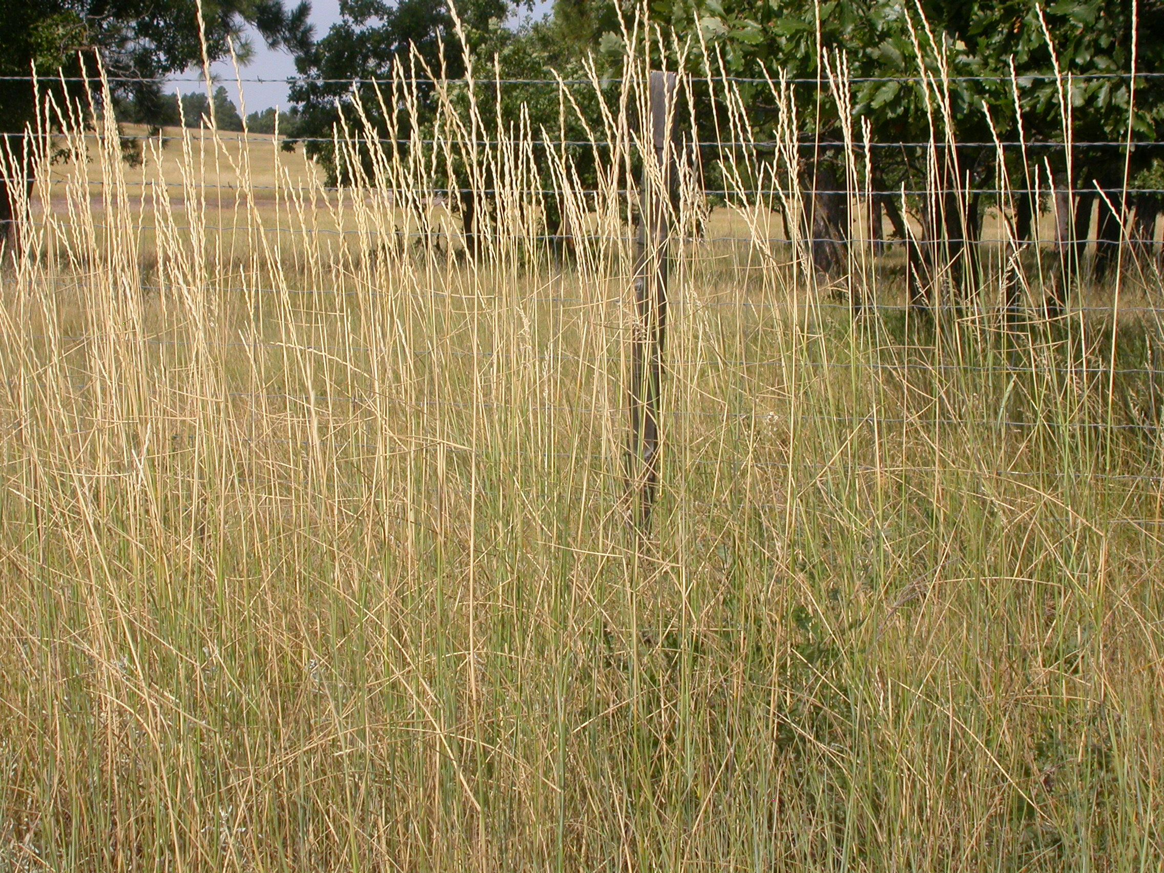 Thinopyrum intermedium (syn. Agropyron intermedium) is one of the most common roadside grasses in southeastern Montana and adjacent Crook County Wyoming. A Pinus ponderosa and Quercus macrocarpa woodland is in the background.